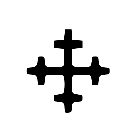 Symbol of Dievturity (variant of Cross Crosslet)